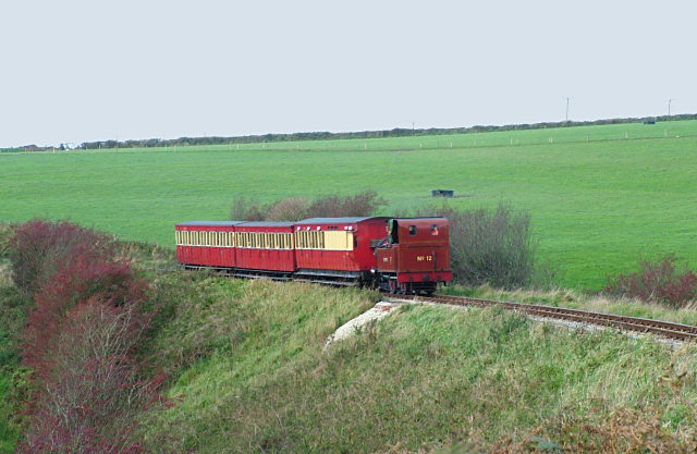 The Isle of Man Steam Railway. A steam railway train approaches Santon Station from the Ballasalla direction, bound for Douglas.